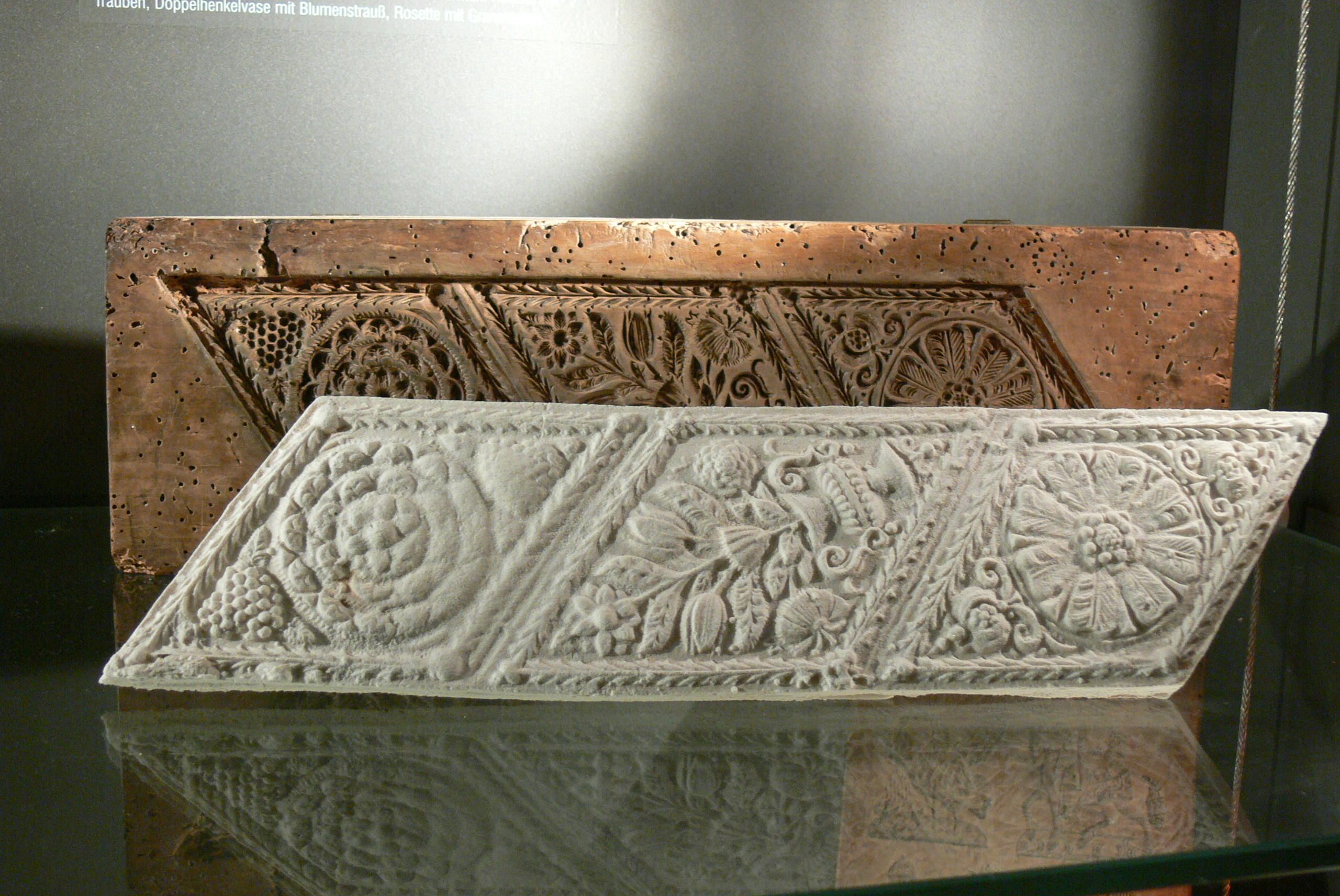 Oberhausmuseum ( Passau ). Mold for marzipan or lebkuchen ( 17th/18th century ).